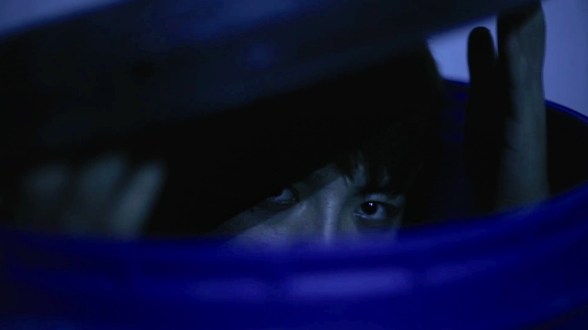 Still 3 from the film Floating Melon (Fu Guo, Sandía Amarga) directed by Roberto F. Canuto & Xu Xiaoxi in 2015, with Vincent Chen Xi.